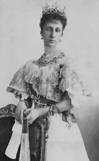 Portrait of Marie Louise of Bourbon-Parma (1870-1899), Princess of Bulgaria